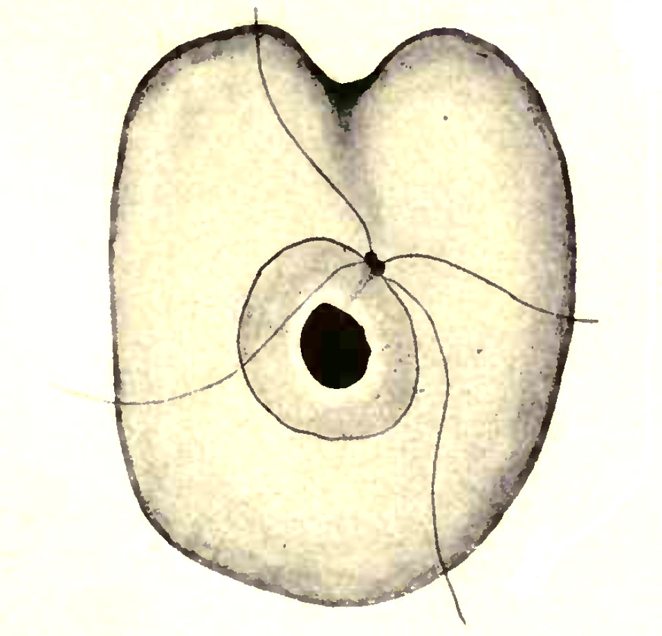 Collodictyon anterior